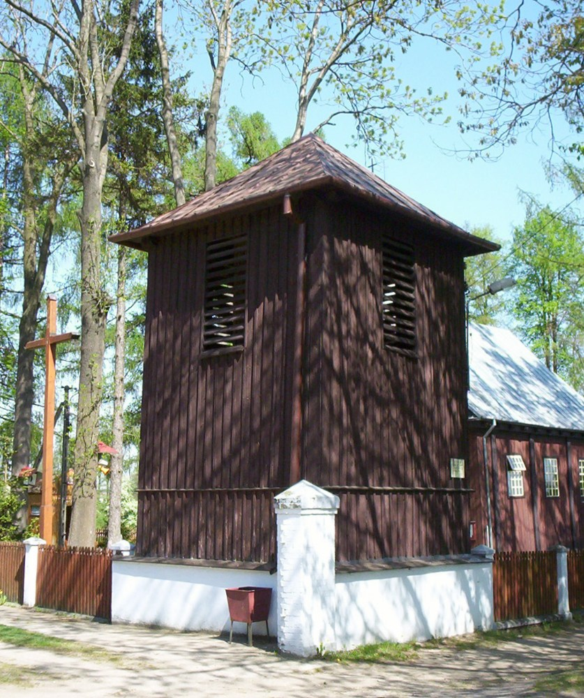 Belfry near church in Skuły, Poland.